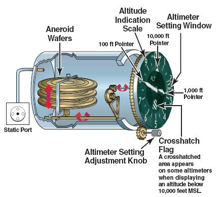 Internal workings of an altimeter.